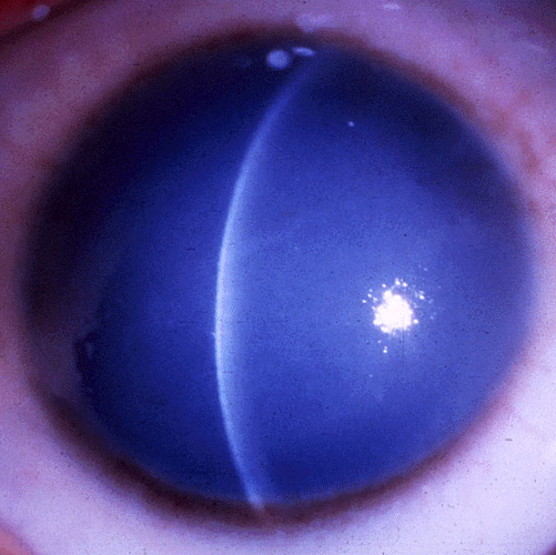 Congenital hereditary endothelial dystrophy. A markedly opaque cornea due to stromal edema secondary to defective endothelial cells (Courtesy of Dr. Ahmed A. Hidajat). Klintworth Orphanet Journal of Rare Diseases 2009 4:7